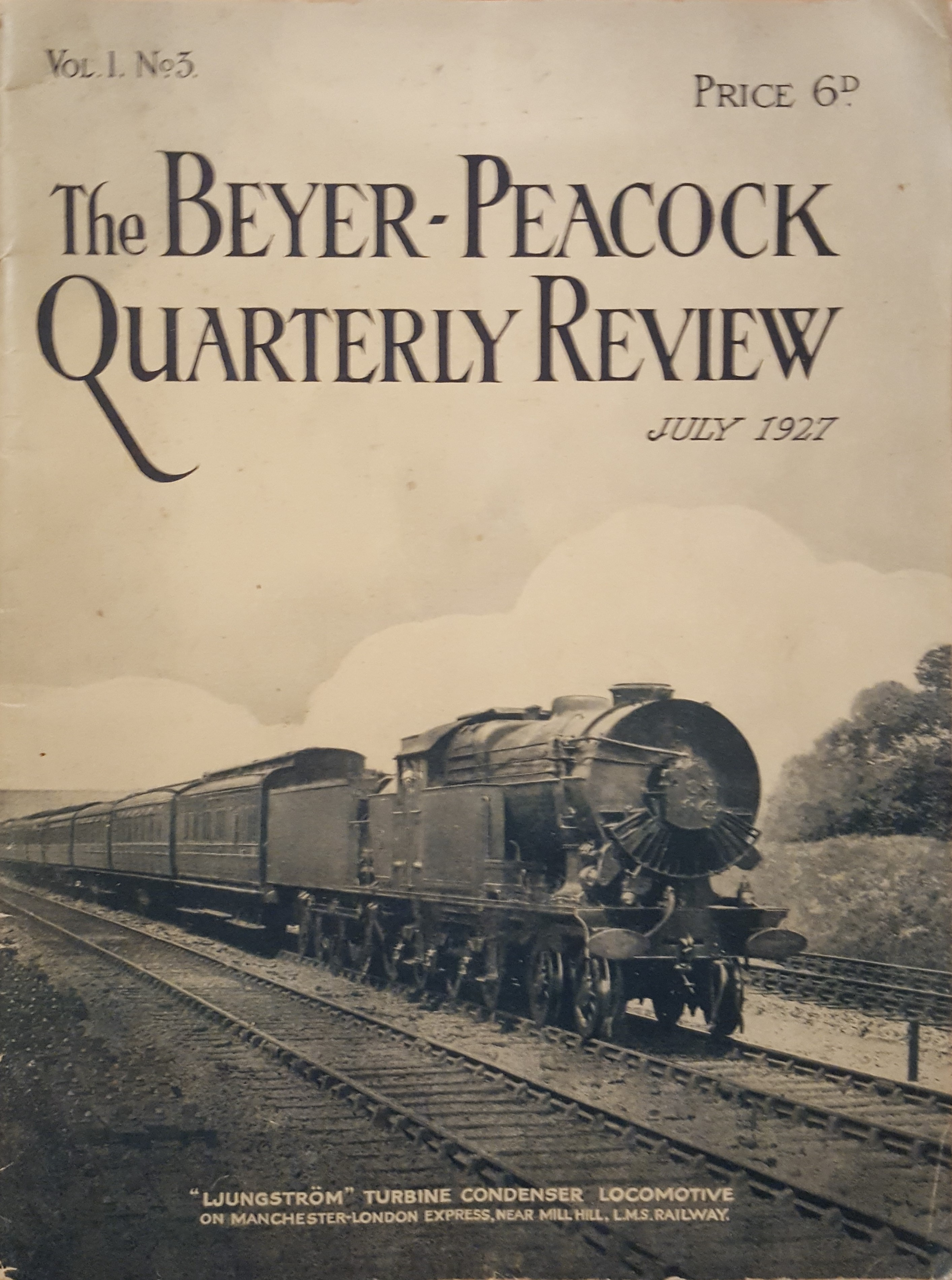 Front page of The Beyer-Peacock Quarterly Review July 1927, Vol. 1, No 3: "Ljungström" turbine condenser locomotive on London-Manchester Express, near Mill Hill, L.M.S. Railway.